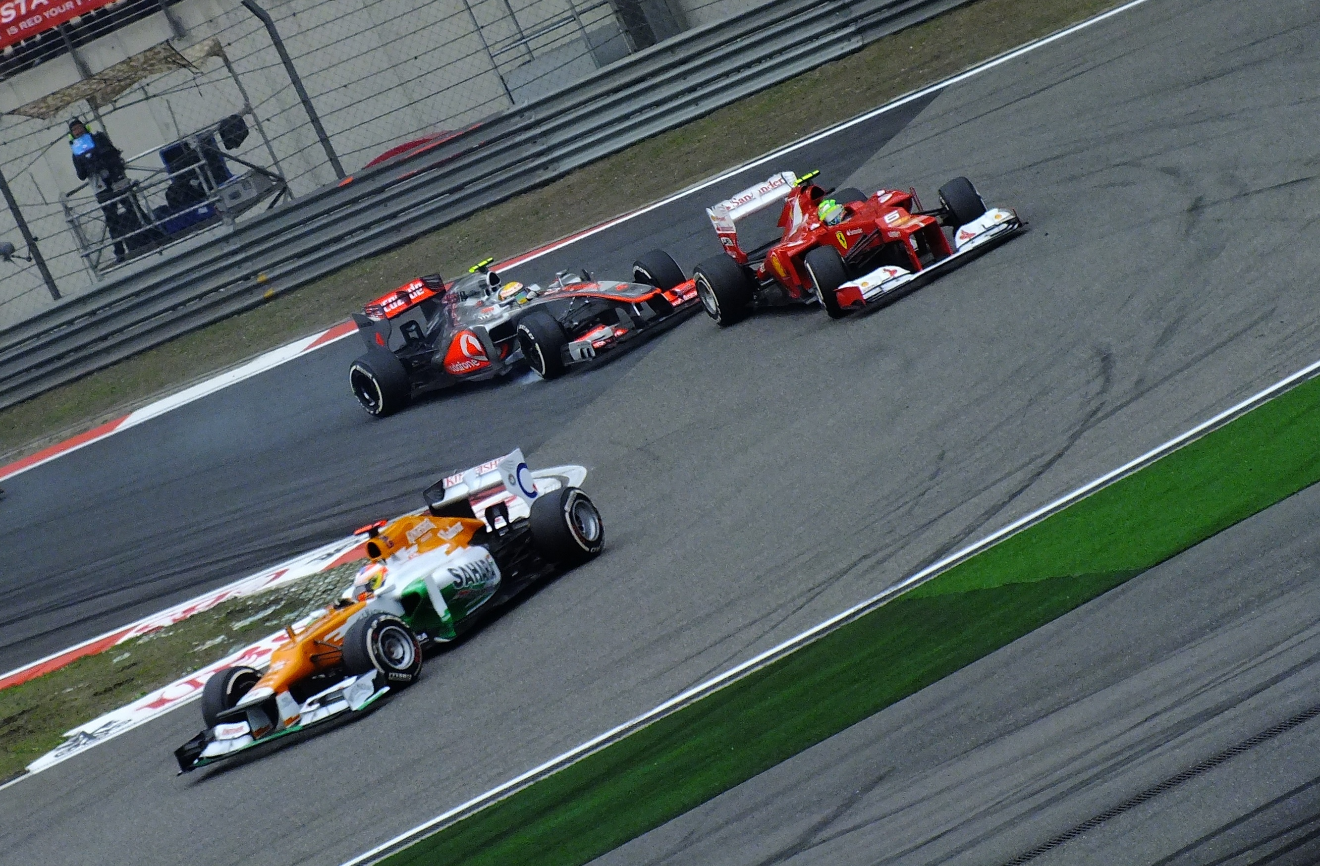 Racing at the 2012 Chinese Grand Prix